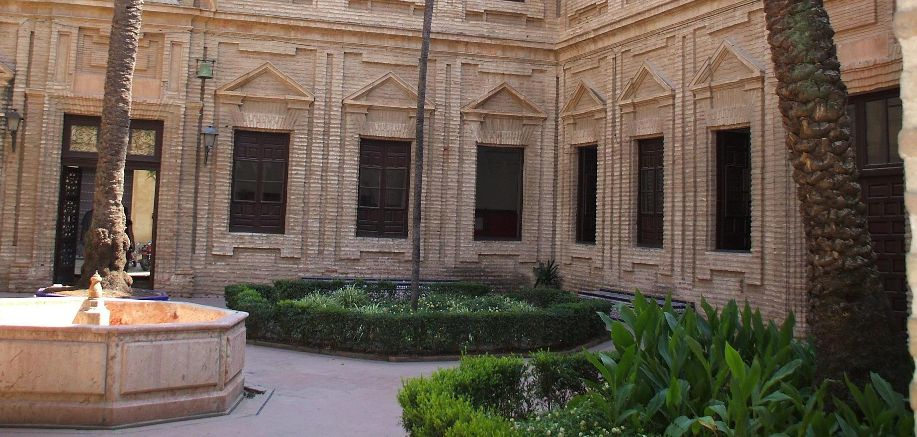 Faculty of Philosophy and Literature, University of Córdoba, Spain.